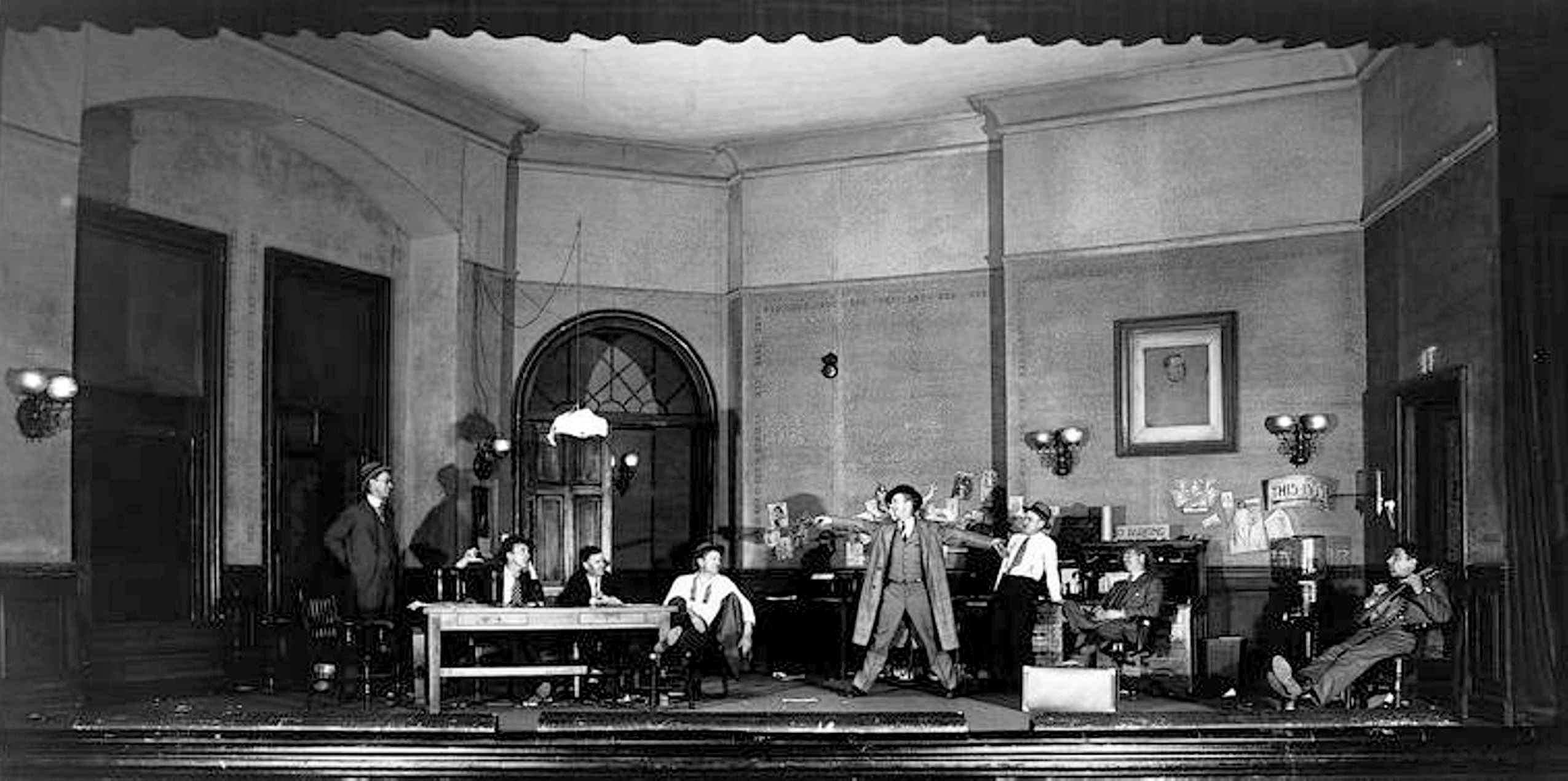 Promotional photograph for the 1928 Broadway production of The Front Page, with Lee Tracy as Hildy Johnson (arms outstretched, center)